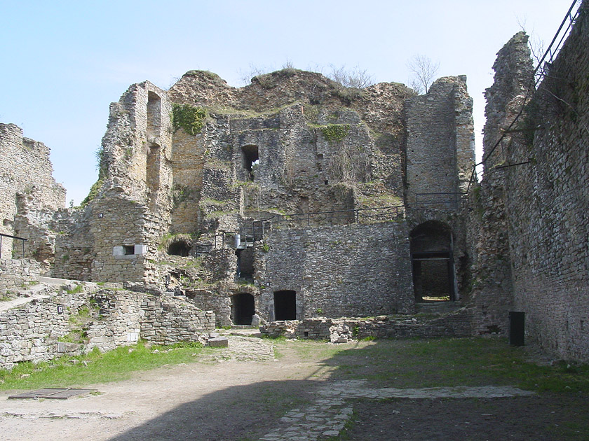 The remains of Franchimont Castle's keep, from the inside. Photograph taken by David Edgar on 23rd April 2006.